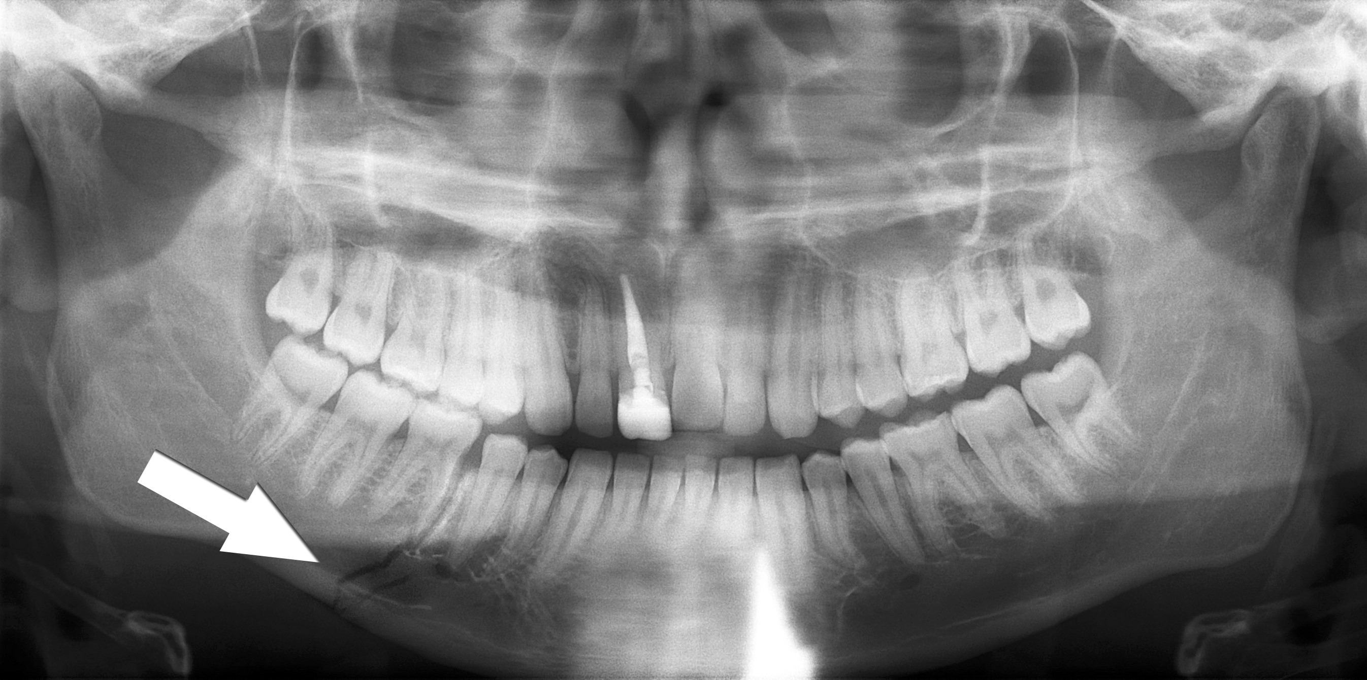 Minimally-displaced fracture in right mandibular body seen by oral surgeon. Arrow marks fracture with two fracture lines showing the fracture is through the medial and lateral cortex of the mandible, root canal on central incisor, wisdom teeth in place. Note that the teeth to the left of the fracture do not touch the upper teeth